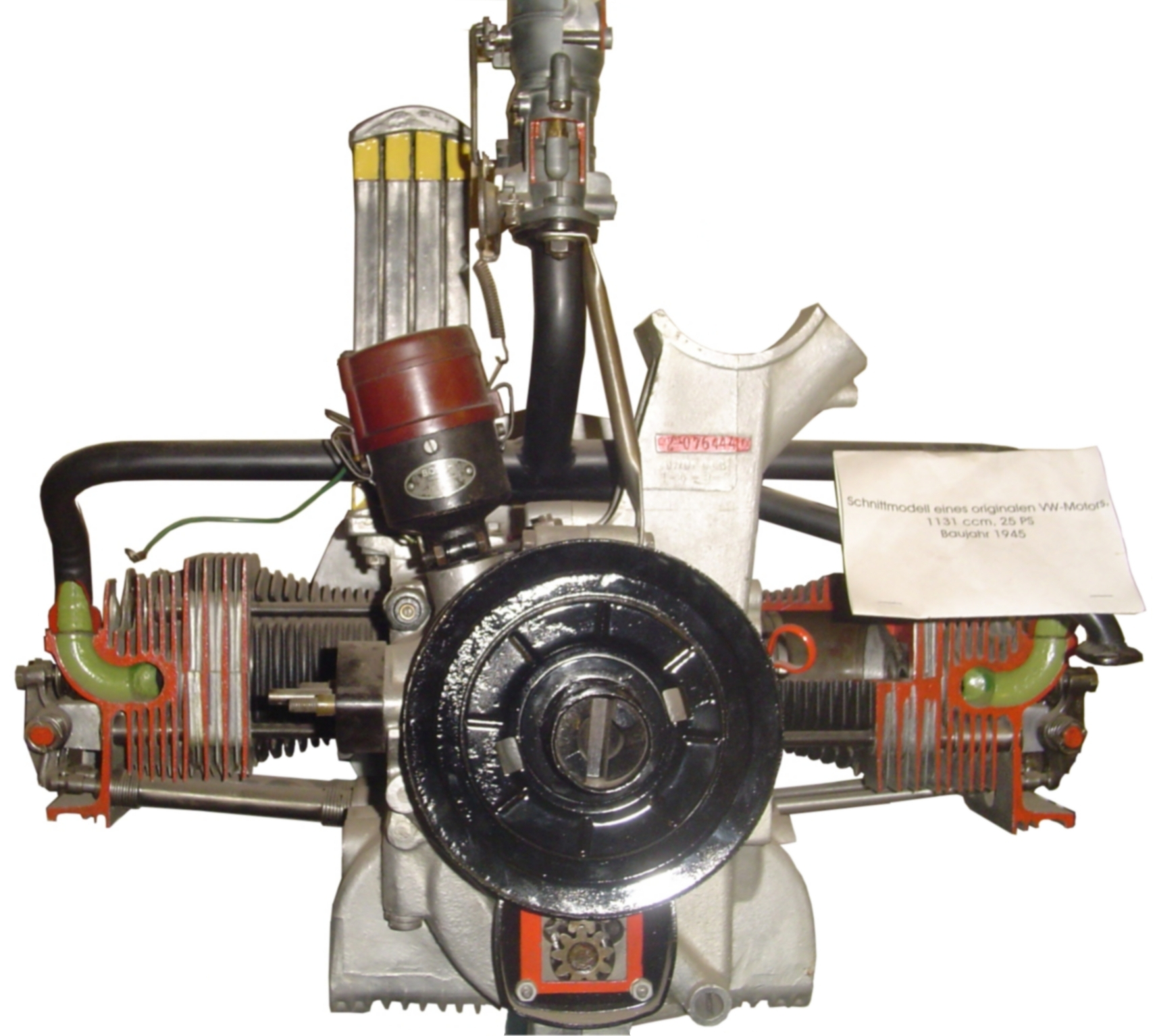 Volkswagen Beetle motor, 1131 cc, 25 PS (DIN) from 1945, cut up for better view on the interior; orange colour: cut surface, green colour: inlet; no exhaust, no cooling fan, no alternator. In the middle: carburetor, top left: oil cooler